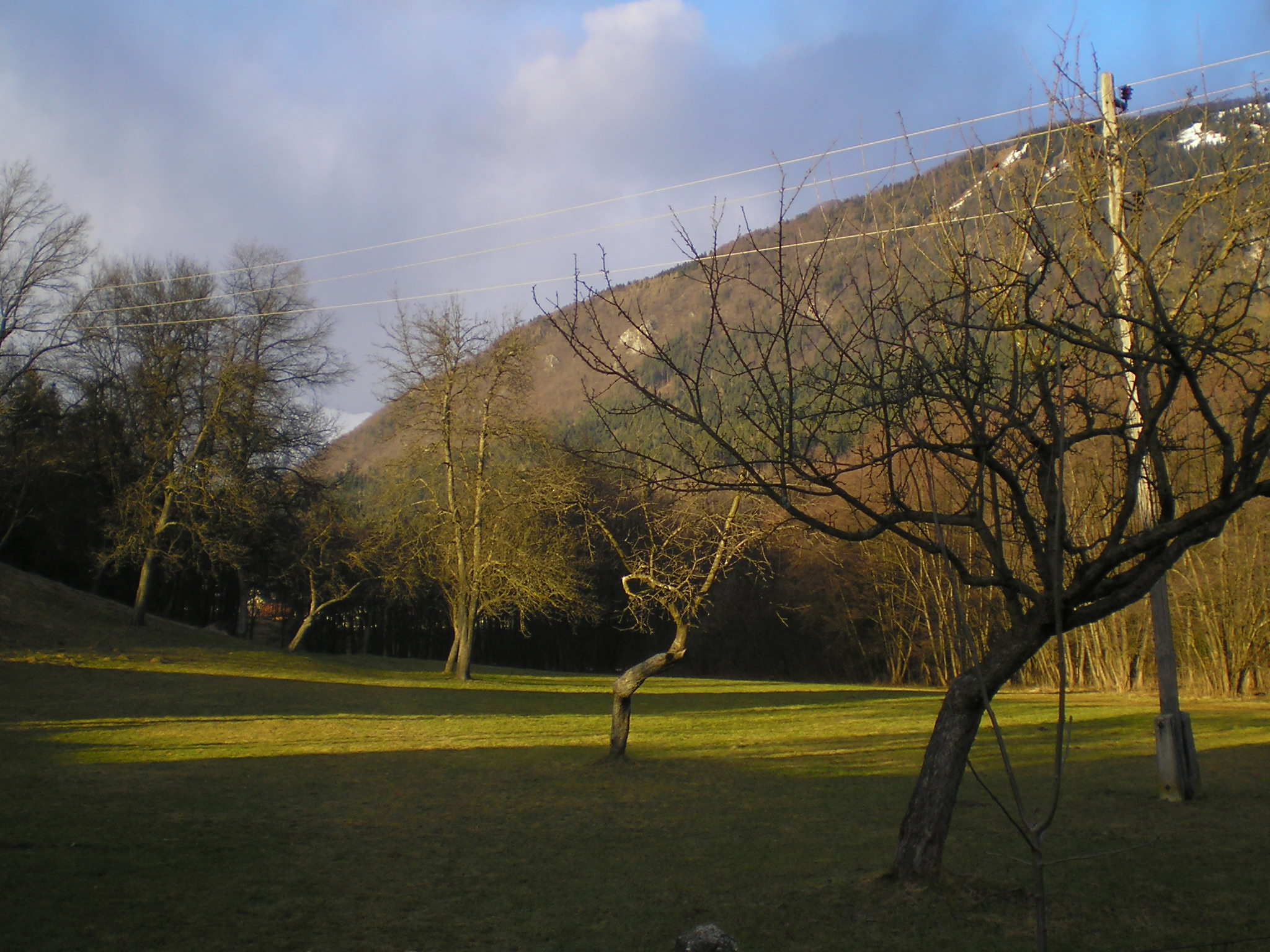 the moment of time